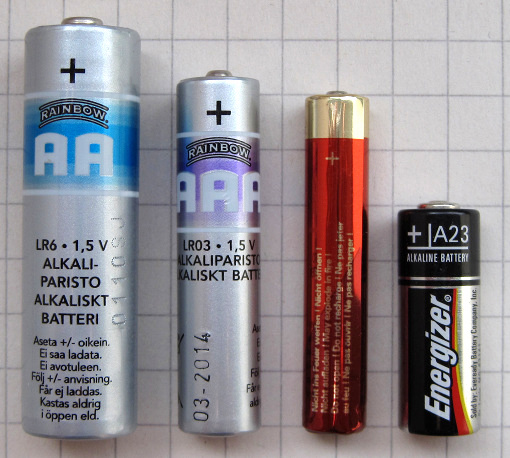 A side by side comparison of AA, AAA, AAAA and A23 battery types.